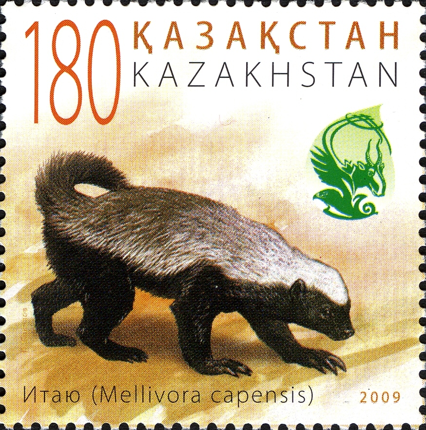 Stamps of Kazakhstan, 2009